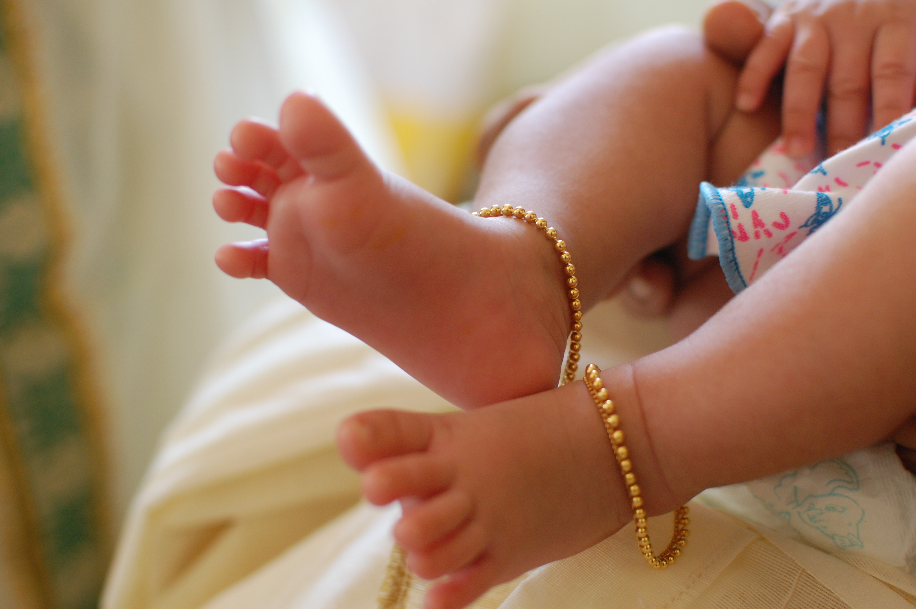 An anklet worn by kids, usually in India